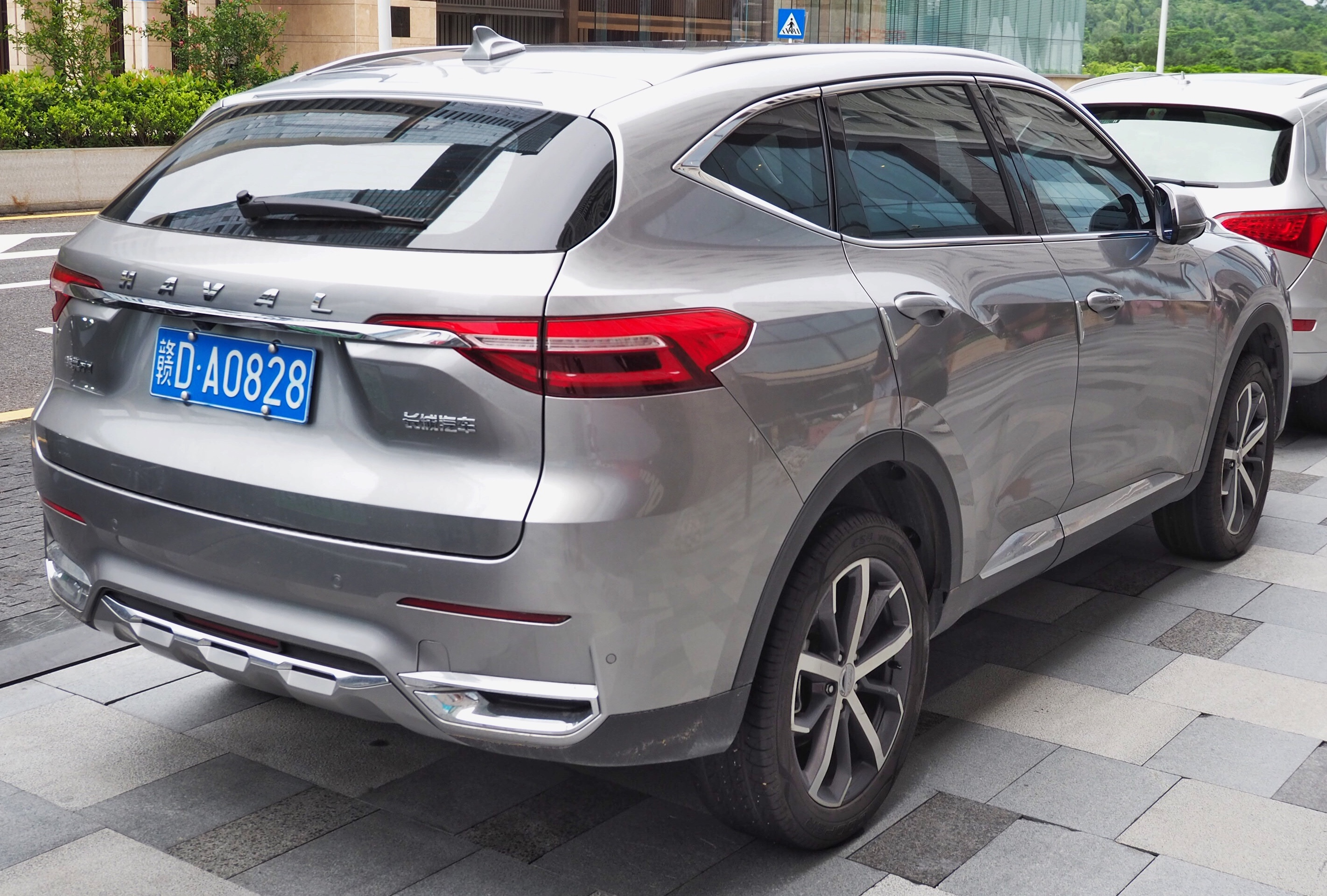 A 2019 Haval F7 taken Shenzhen, Guangdong province, China. 中文（中国大陆）: 一辆2019年的哈佛F7，摄于中国广东省深圳市。